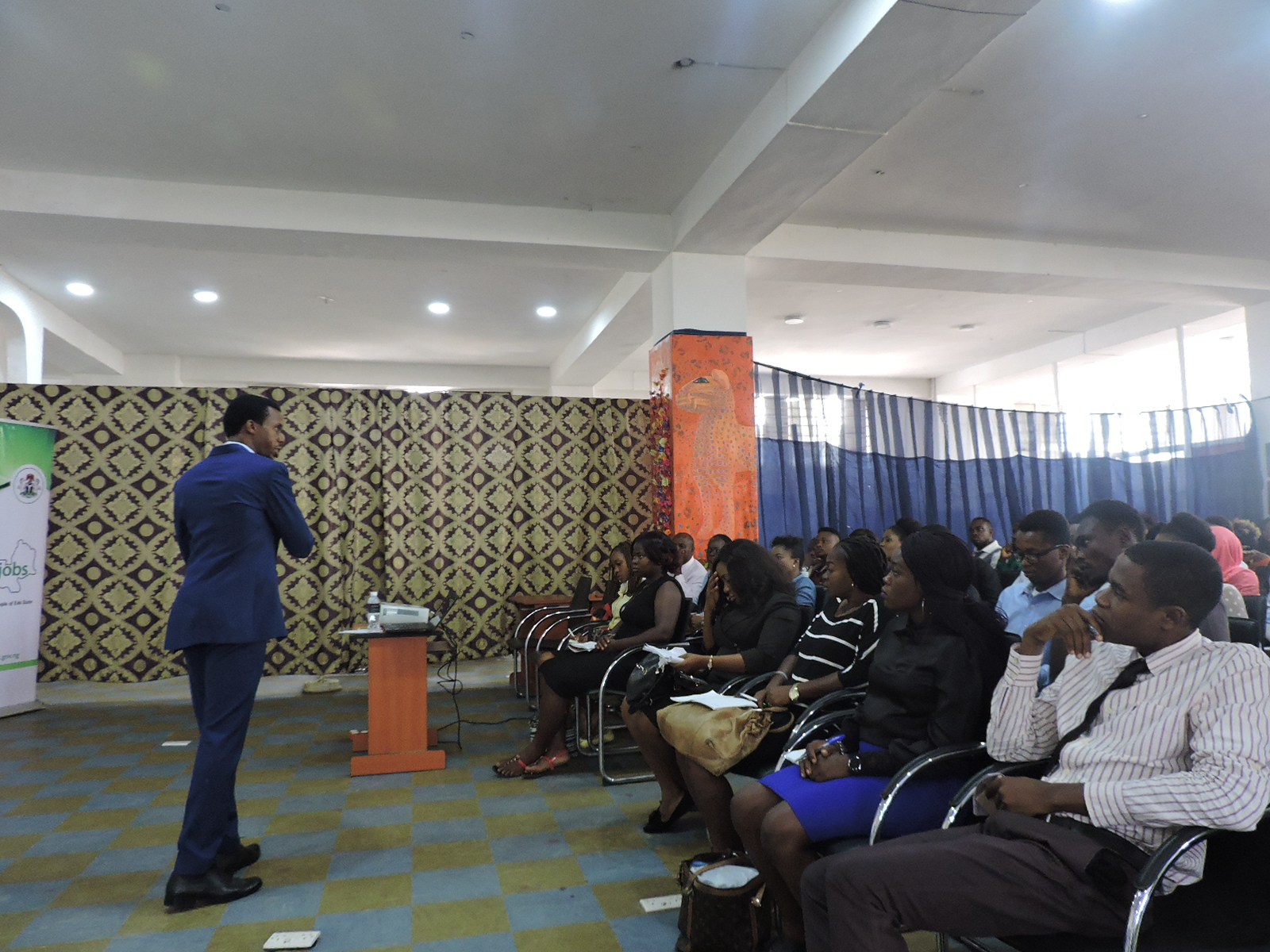 Career Kickstart Program, Edo State, Nigeria, Poise Nigeria, Gidijobs, Oxfam, Edojobs